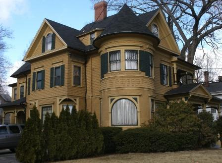 James Alldis House, 355 Prospect Street, Torrington, Connecticut. Queen Anne style. Listed on National Register of Historic Places individually. Adjacent to, but not included in, Downtown Torrington Historic District.